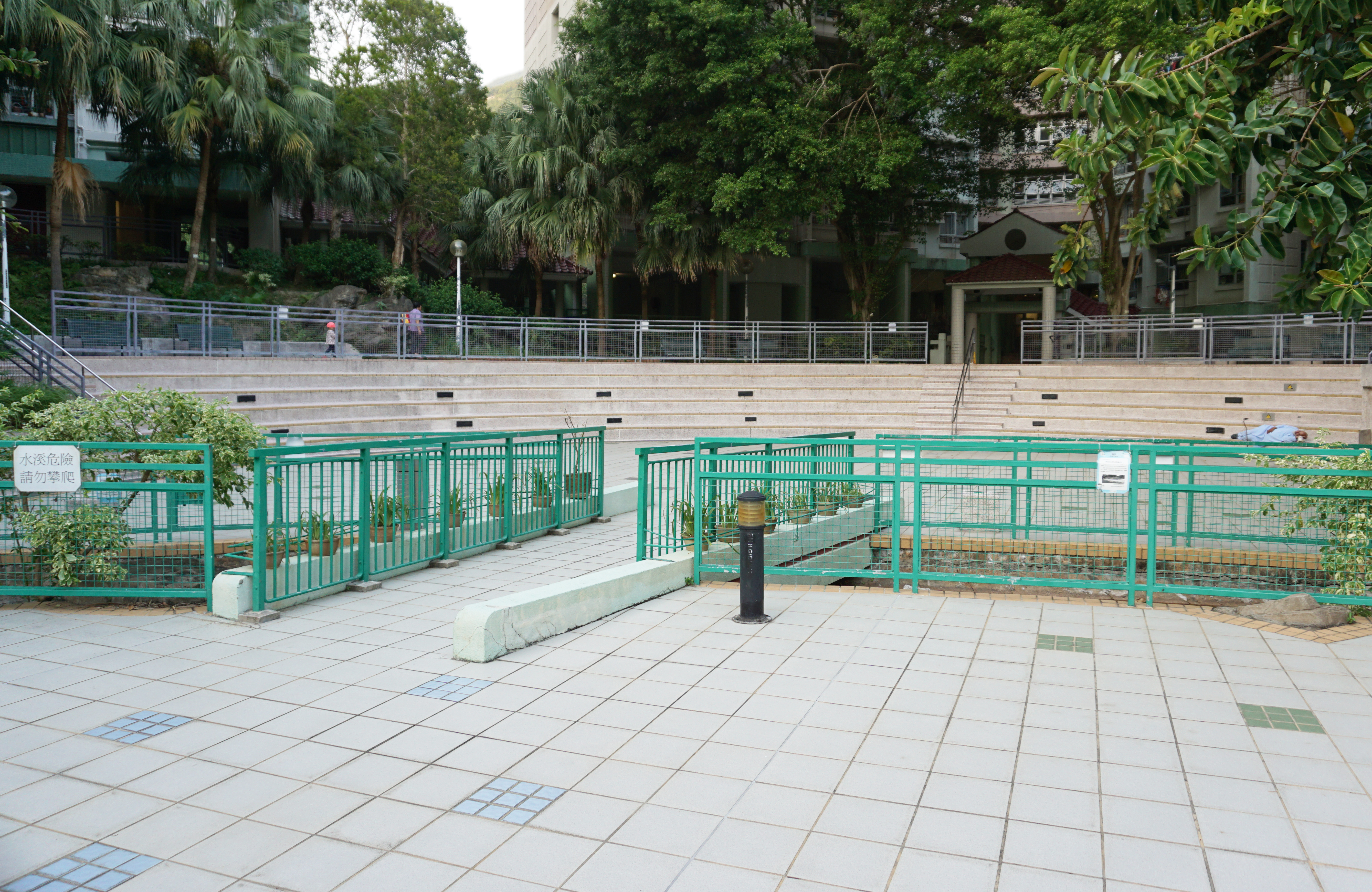 Ma Hang Estate in Stanley, Hong Kong.